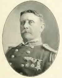 Oscar Walter Farenholt